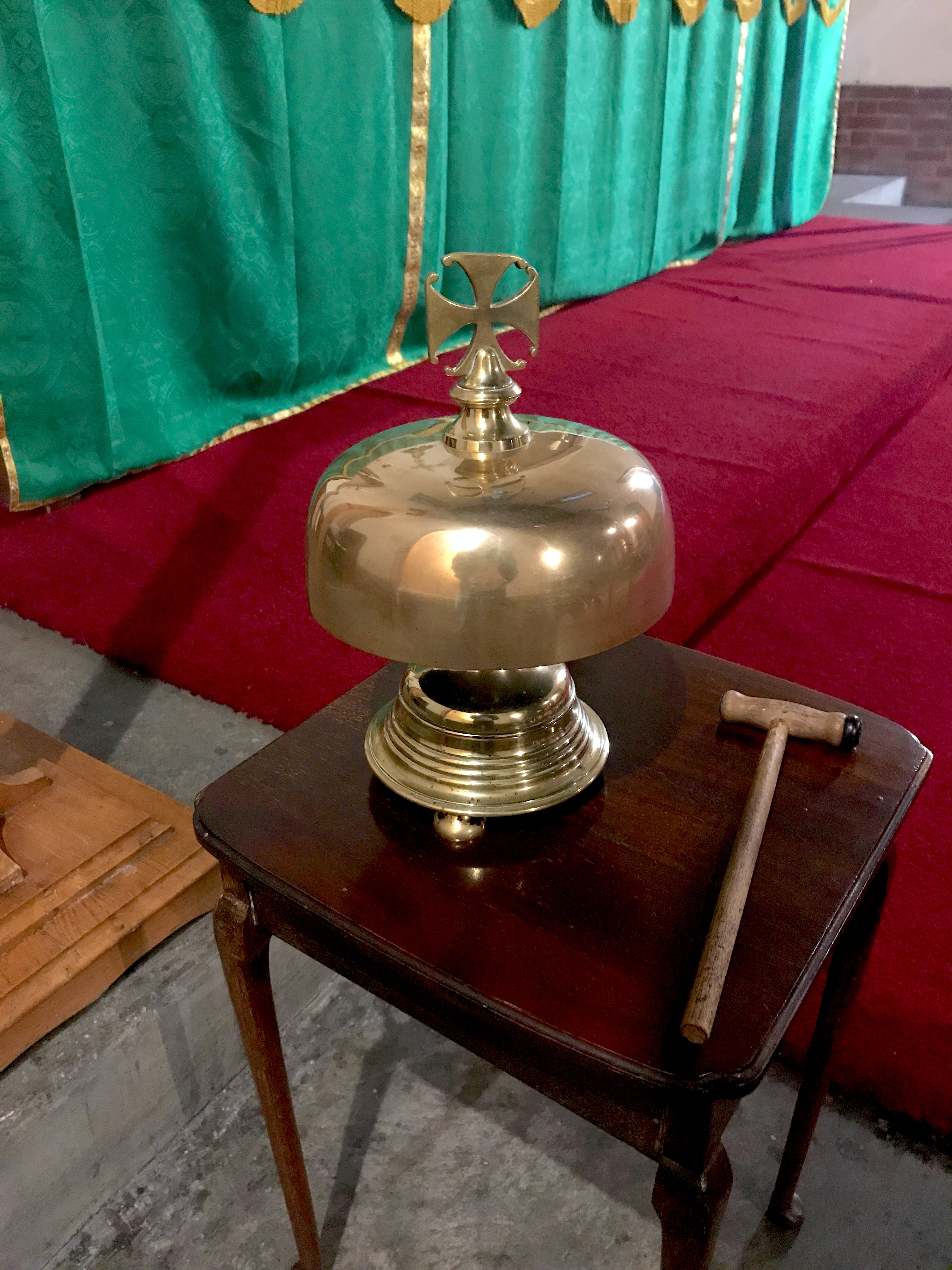 An altar gong and mallet, used as an alternative to the altar bell in some churches (especially within Anglo-Catholicism), in the Parish Church of St Gabriel, North Acton.